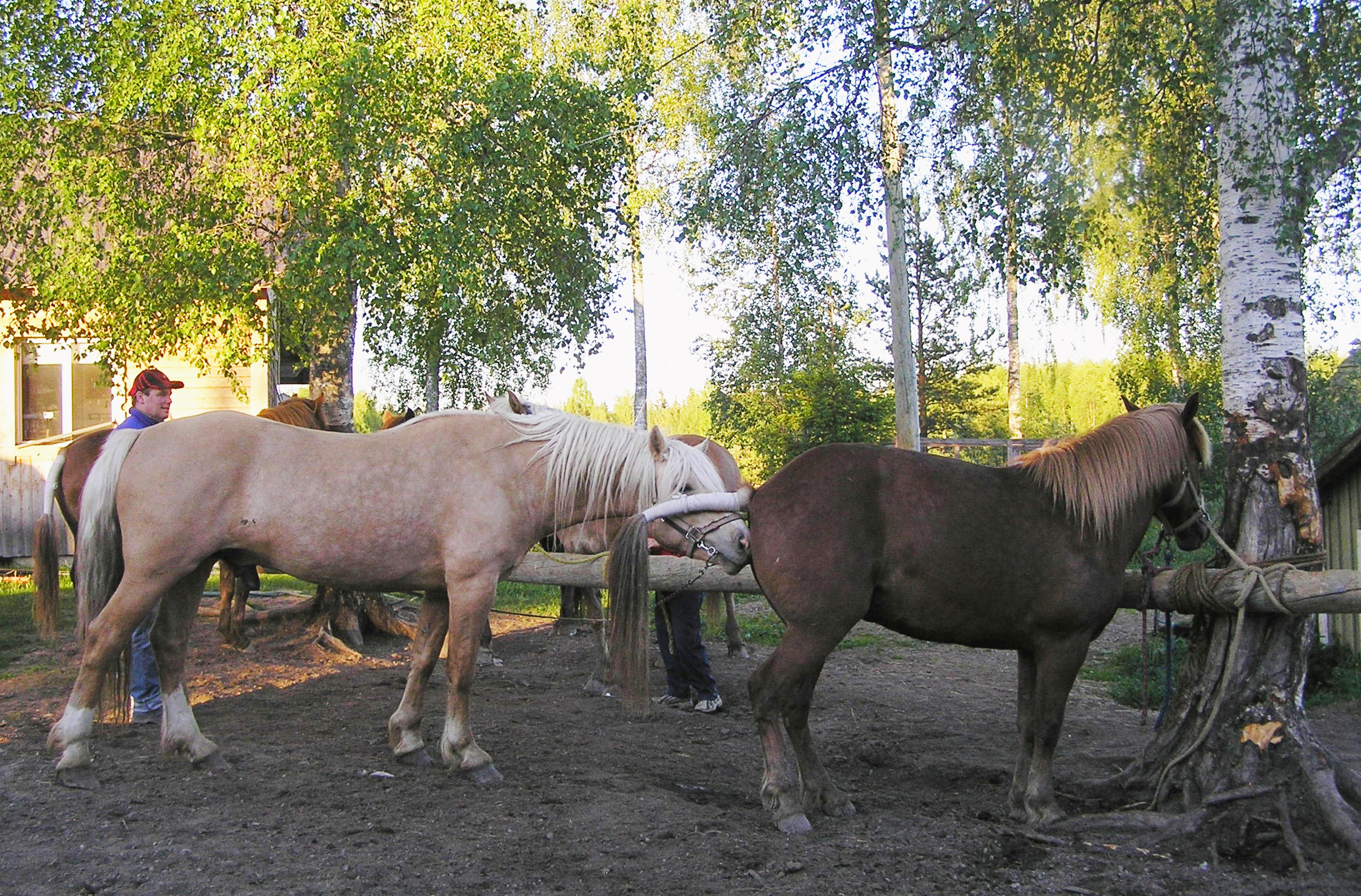 Auringon Loiste serving a mare. Checking if she's fertile.